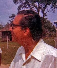 Belizean Prime Minister George C. Price in 1976. Cropped from original at